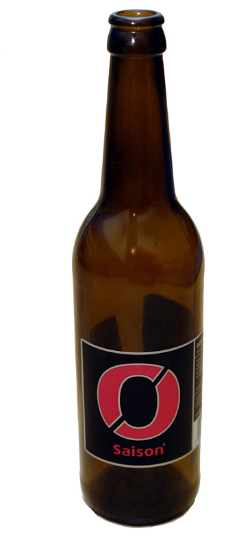 Nøgne Ø Saison -beer. Brewer Nøgne Ø from Grimstad, Norway.